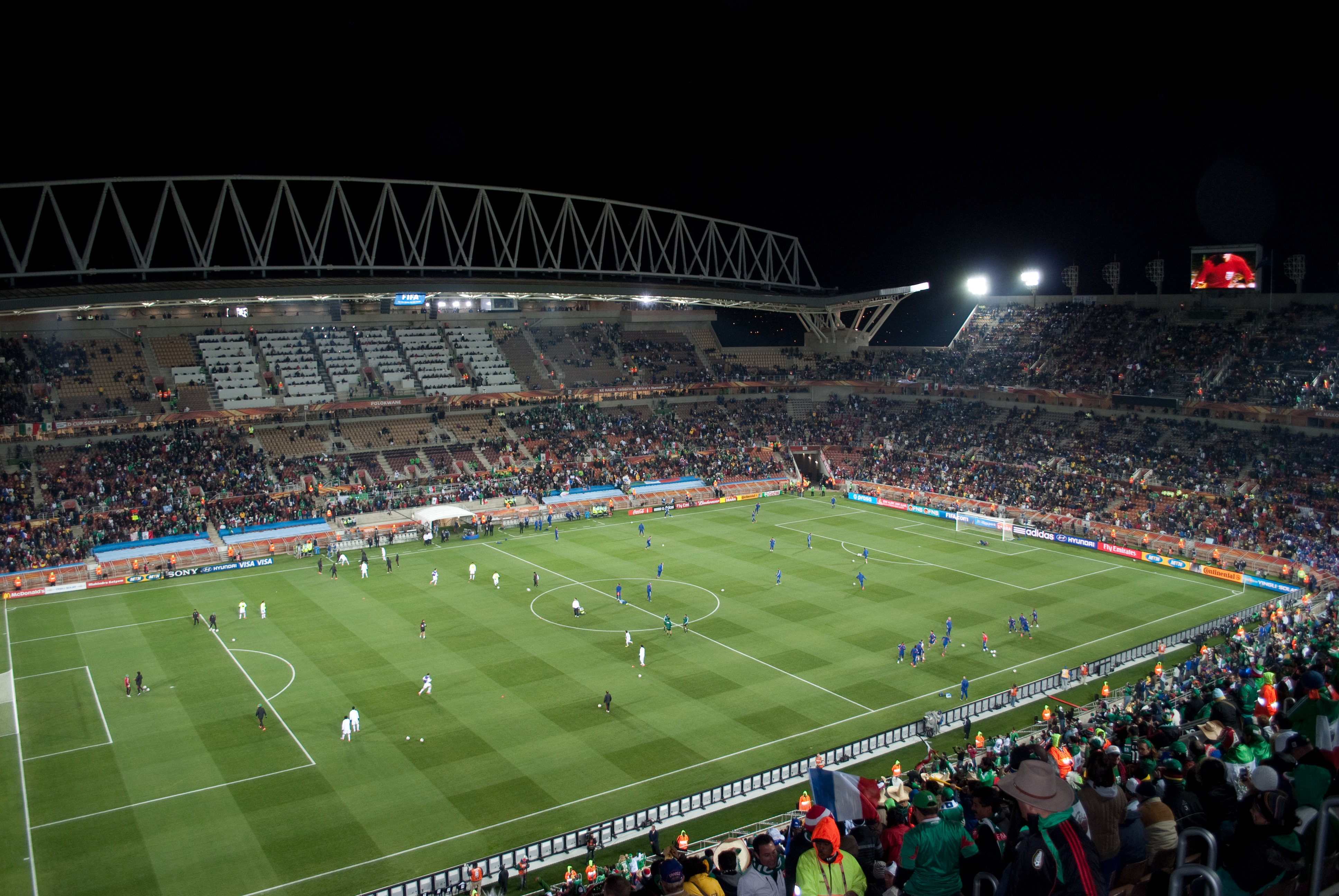 Teams are warming up